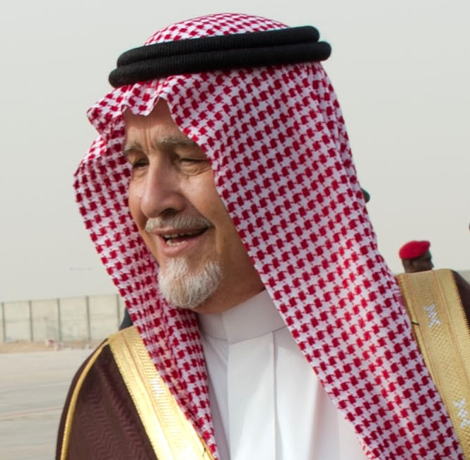 Fahd bin Abdullah bin Mohammed bin Abdullrahman bin Faisal Al Saud